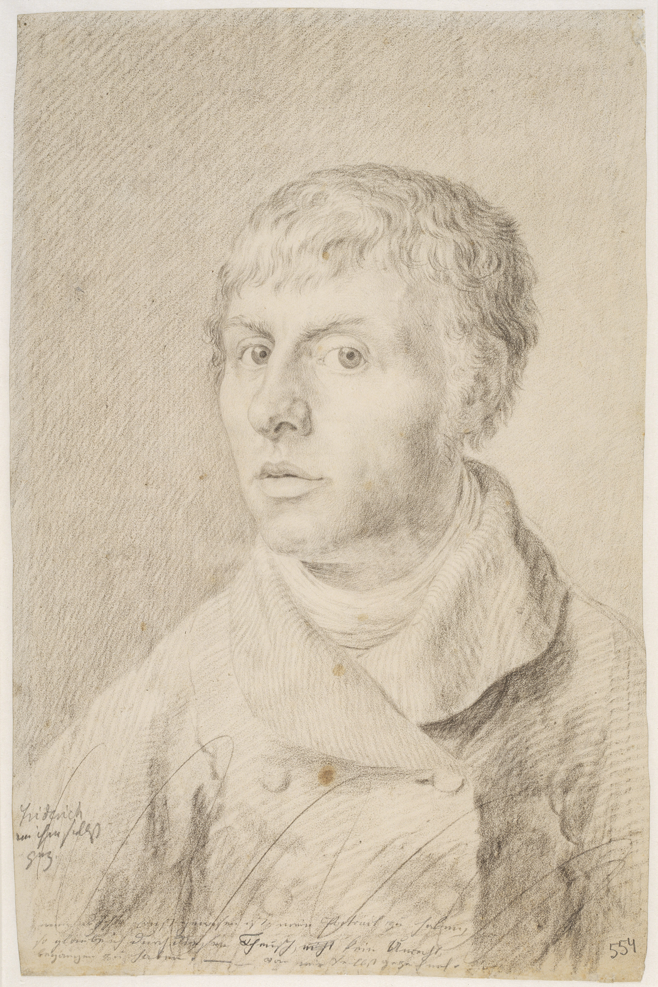 Self-portrait as a young man